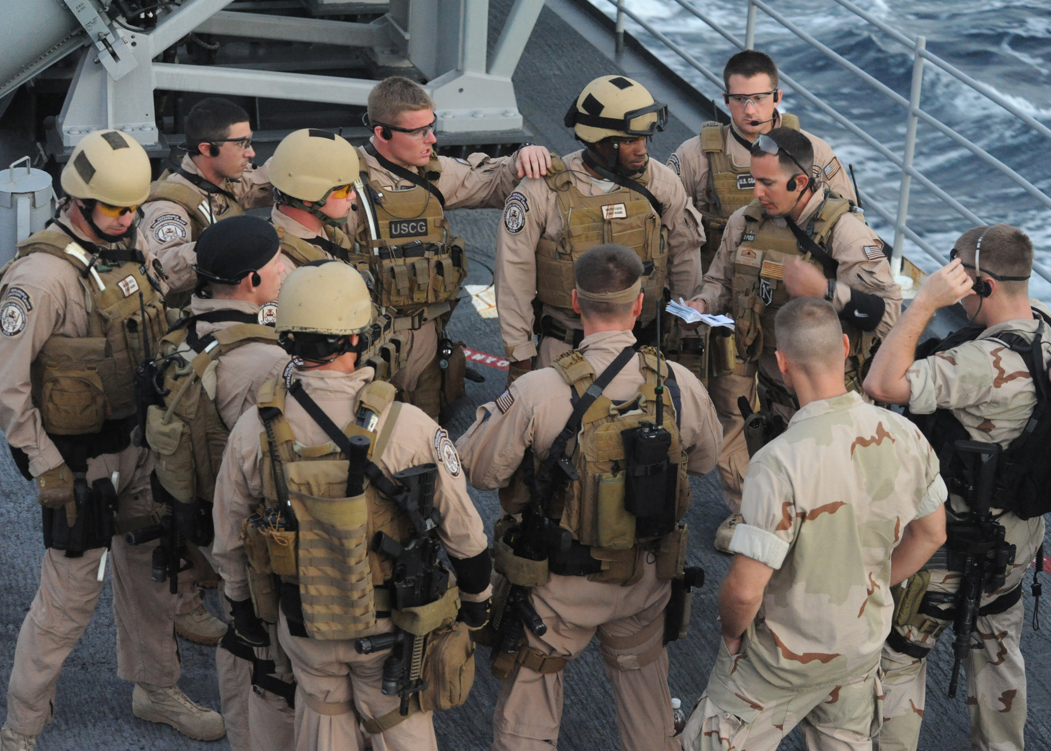 U.S. Navy sailors assigned to a visit, board, search and seizure team and Coast Guardsmen assigned to the Coast Guard Law Enforcement Detachment Team embarked aboard the guided missile cruiser USS Lake Champlain (CG 57) conduct a counter piracy operations briefing while underway in the Arabian Sea on Jan. 1, 2011. The Lake Champlain is deployed with Commander, Task Force 151 supporting maritime security operations and theater security cooperation efforts in the U.S. 5th Fleet area of responsibility.